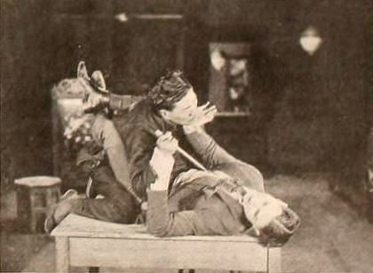 Still from the American film serial The Evil Eye (1920) with Benny Leonard, on page 3513 of the April 17, 1920 Motion Picture News.